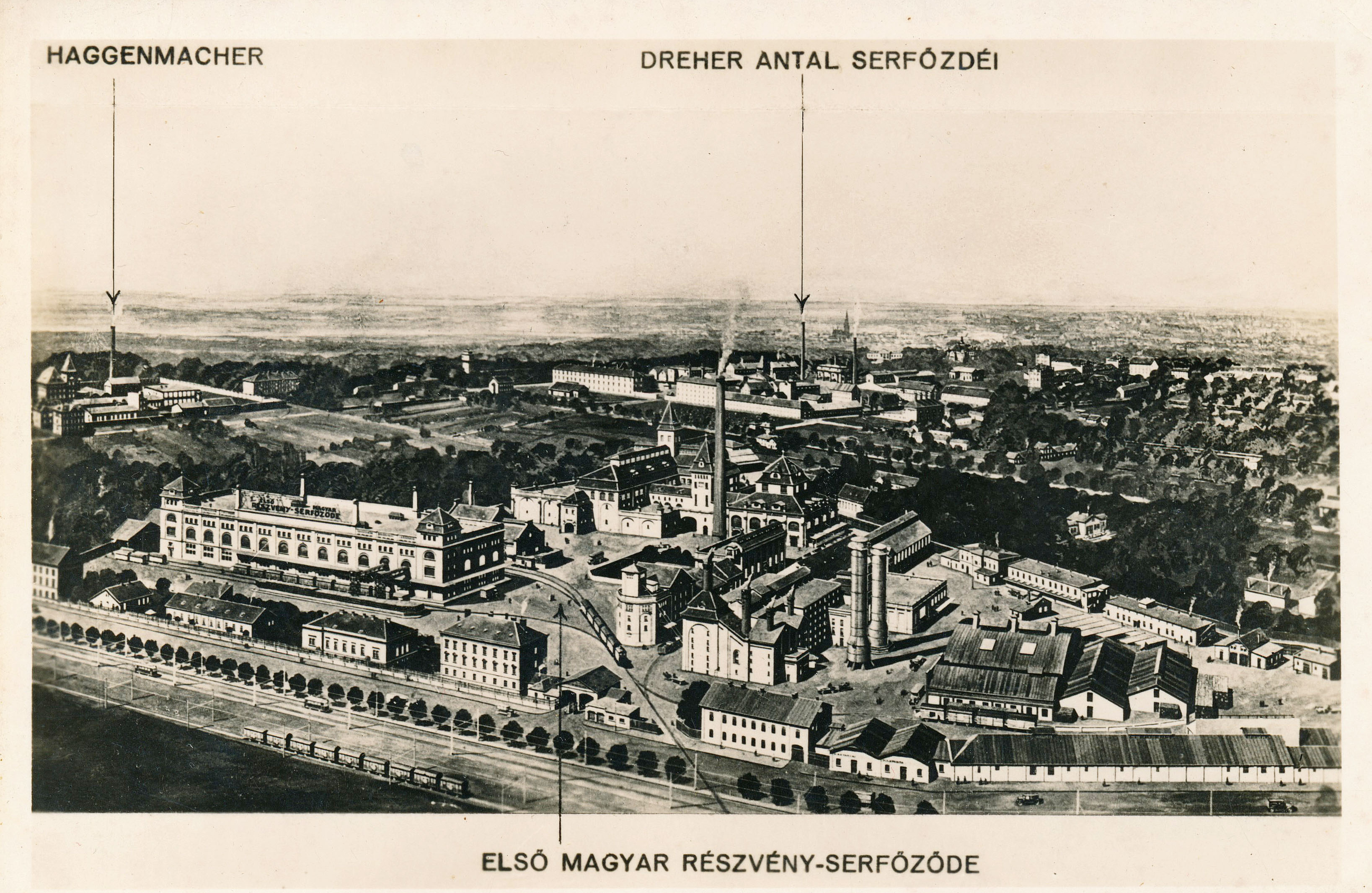 Hungary - Budapest - Kobanya breweries - Postcard from 1928 Dreher, Haggenmacher, and Első Magyar Részvény-serfőzde ( First Hungarian Share-brewery)